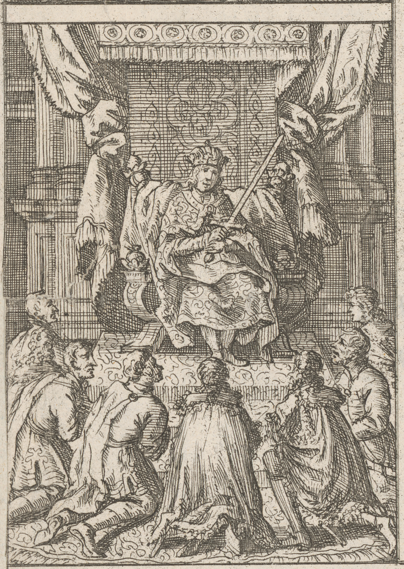 Coronation of Joseph I in Presburg, 1687. Detail from the engraving of 1688